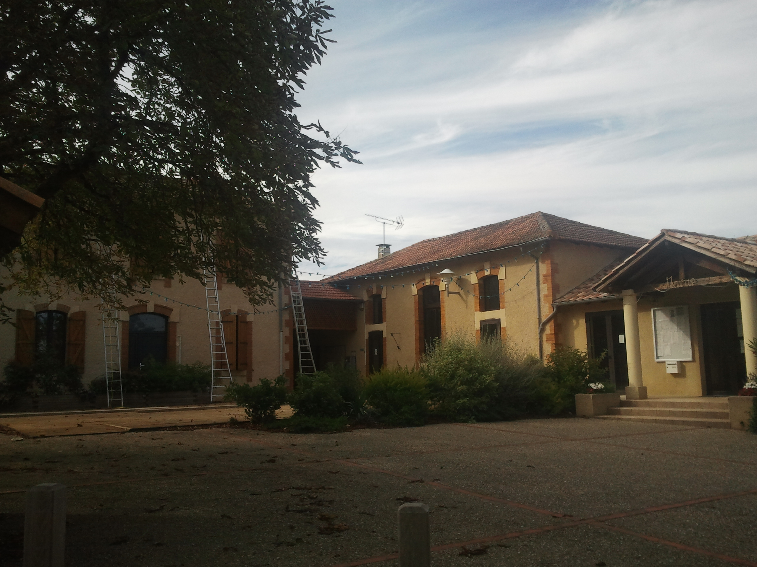 Square of the town hall in Lourties-Monbrun